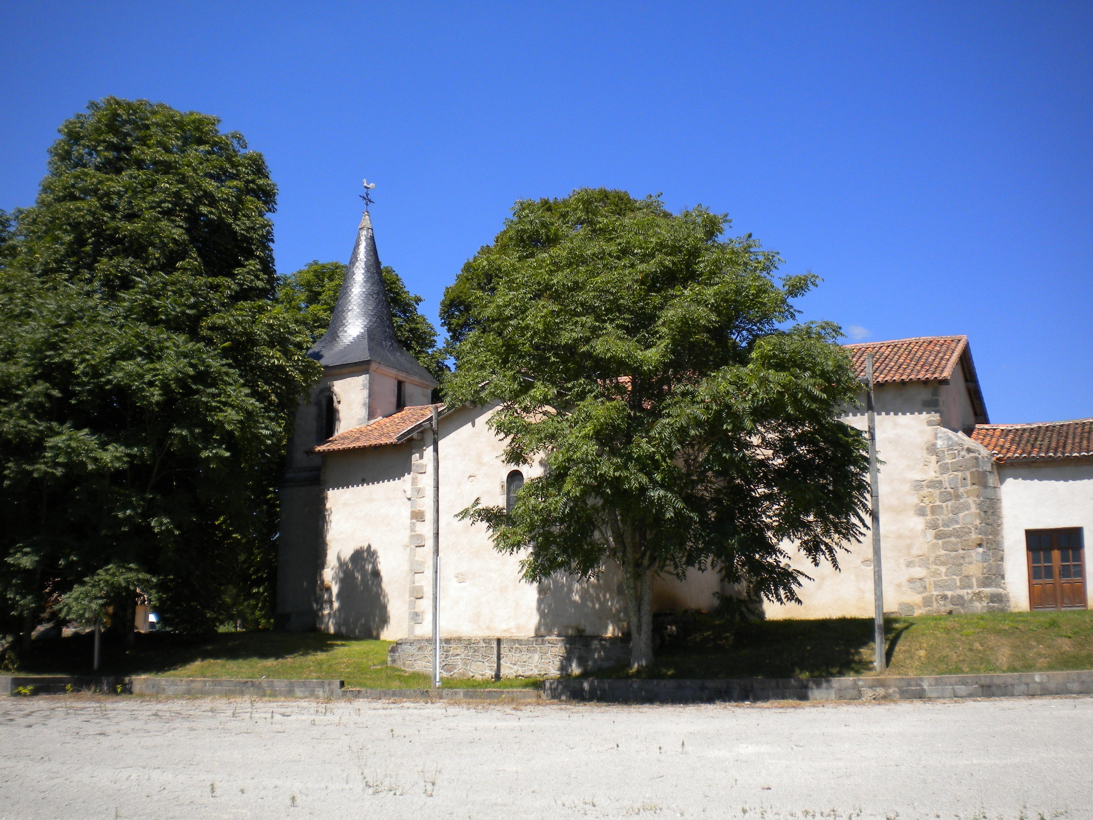 The church of Étouars in the north of the Dordogne, France.